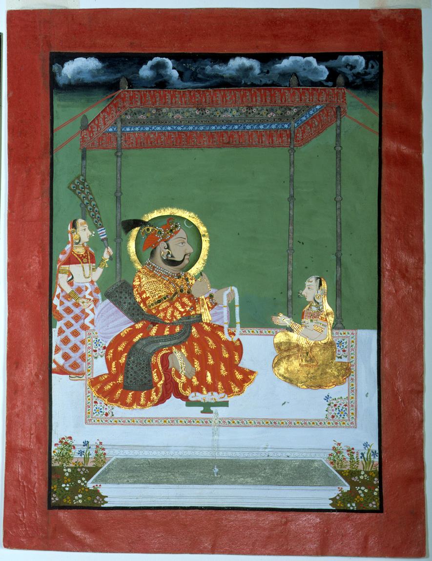 Maharana Pratap Singh II with his Rani